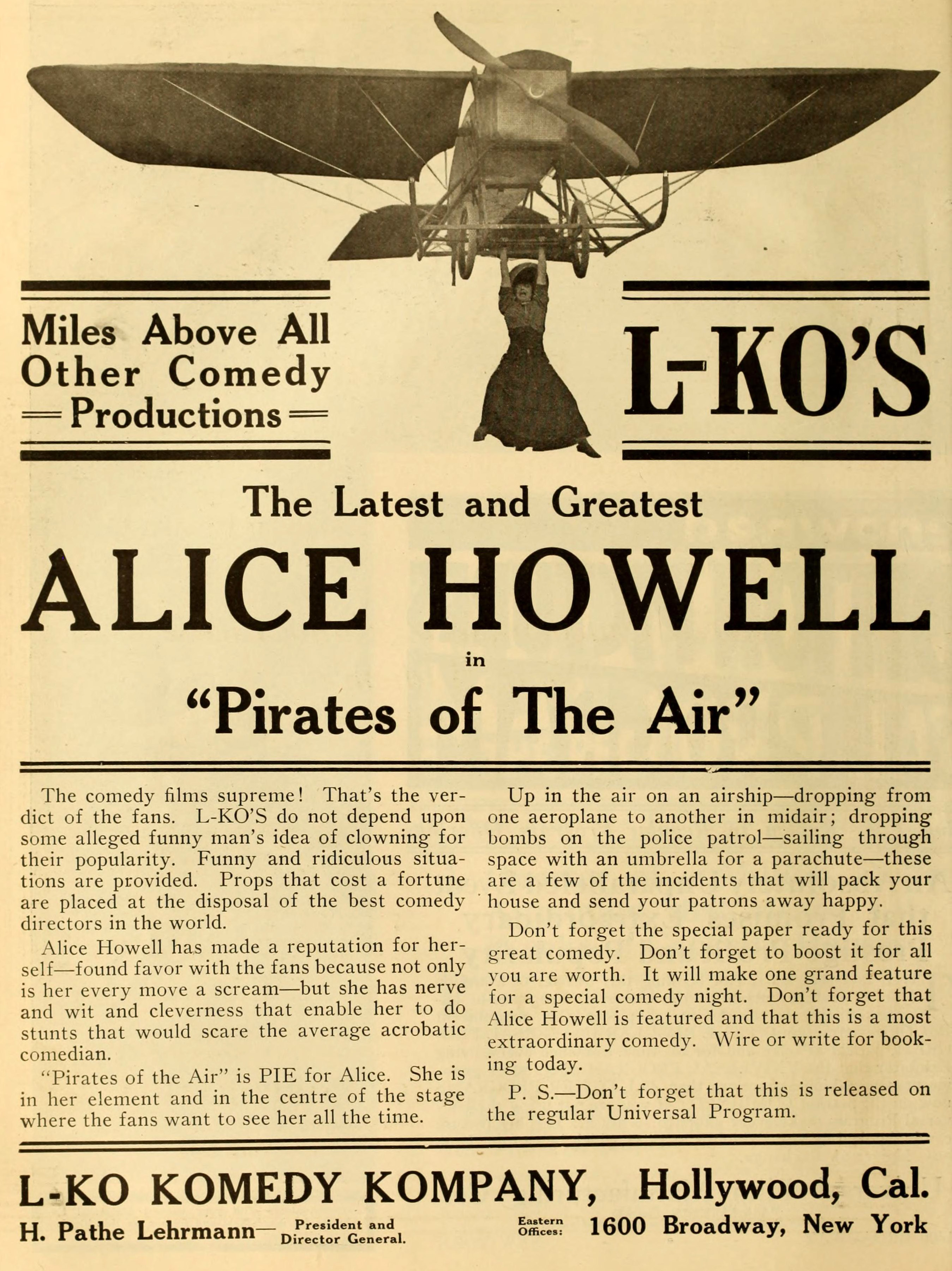 Advertisement in The Moving Picture World